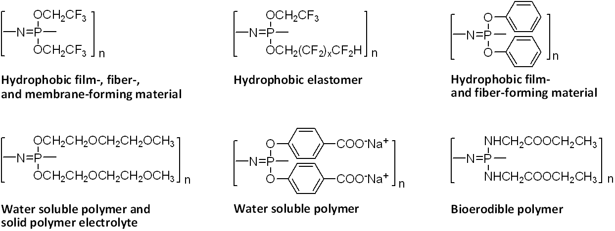 Chemical structures of selected polyphosphazenes and their most notable properties